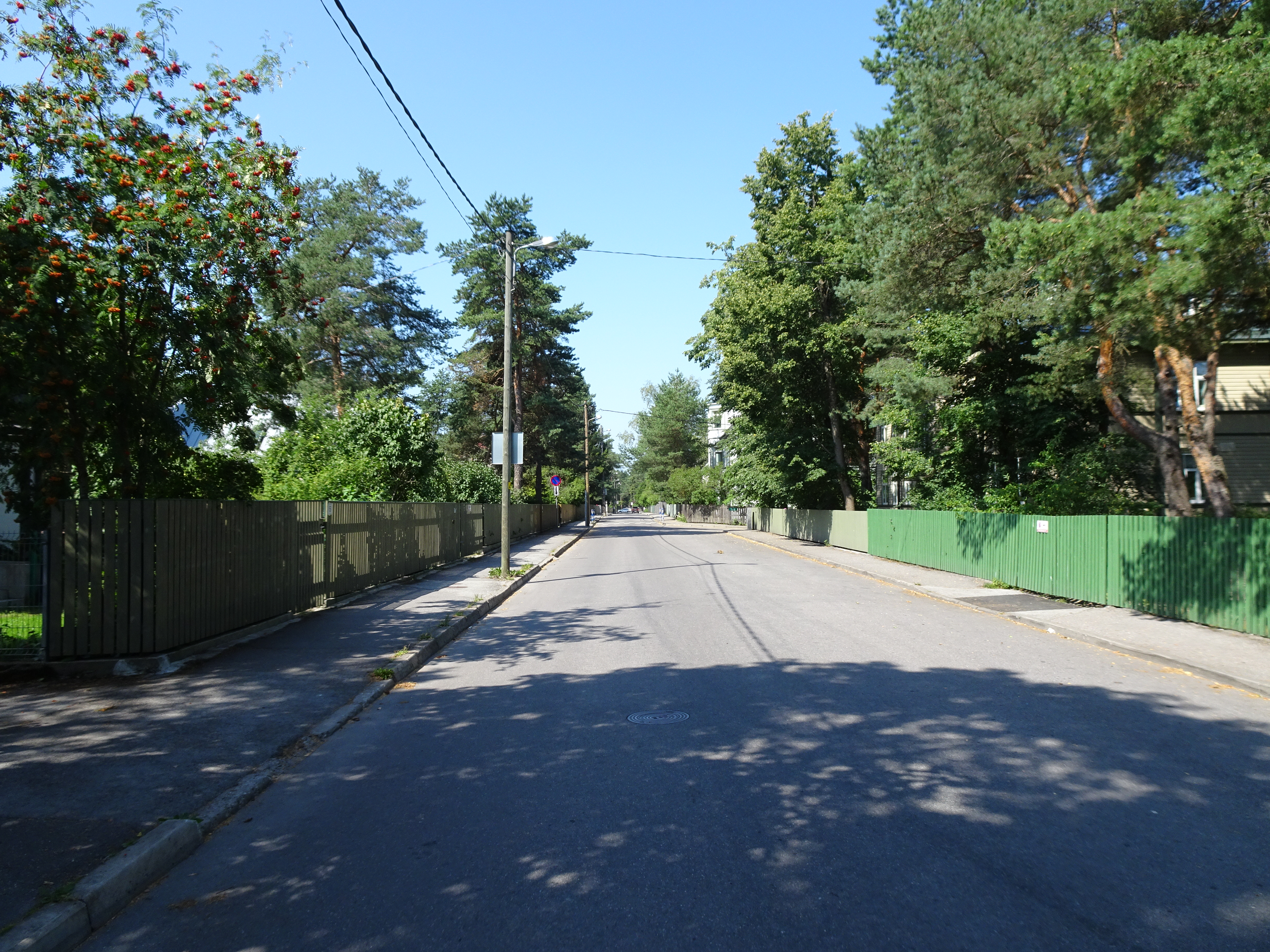 Suvila Street in Tallinn, Estonia